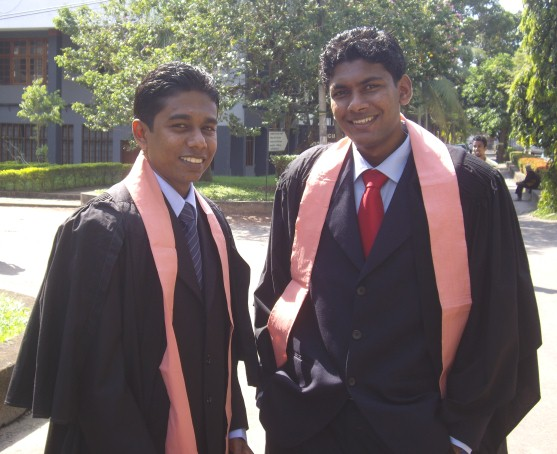 Sri Jayewardenepura University Students Convocation in Sri Lanka "Lanka University News" Sri Lanka University news "Lanka University News"